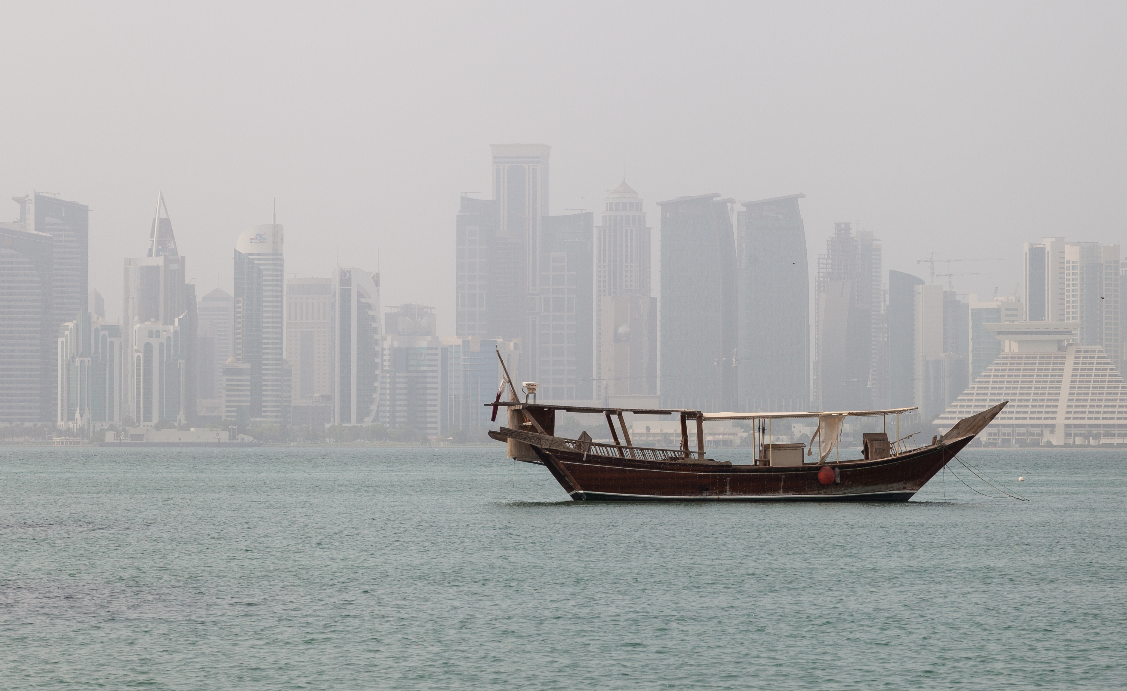 Doha Bay, Qatar